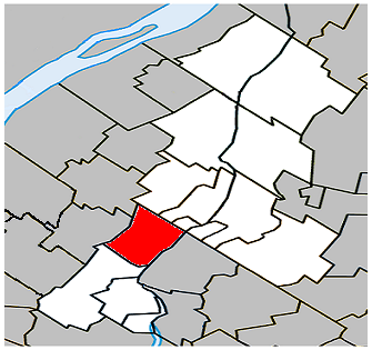 Location of Saint-Basile-le-Grand, Quebec within La Vallée-du-Richelieu Regional County Municipality.